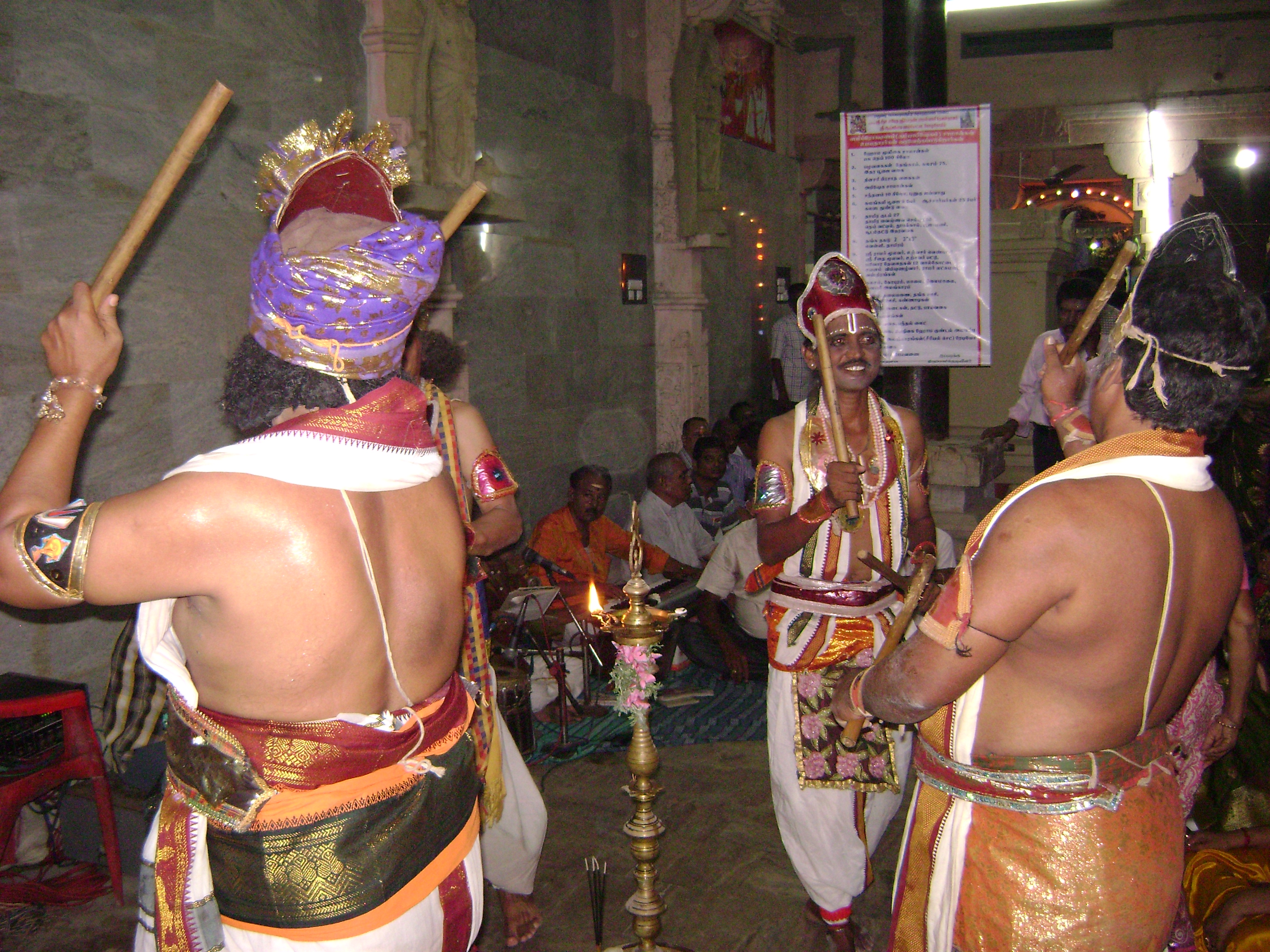 Brindhavana Kolattam